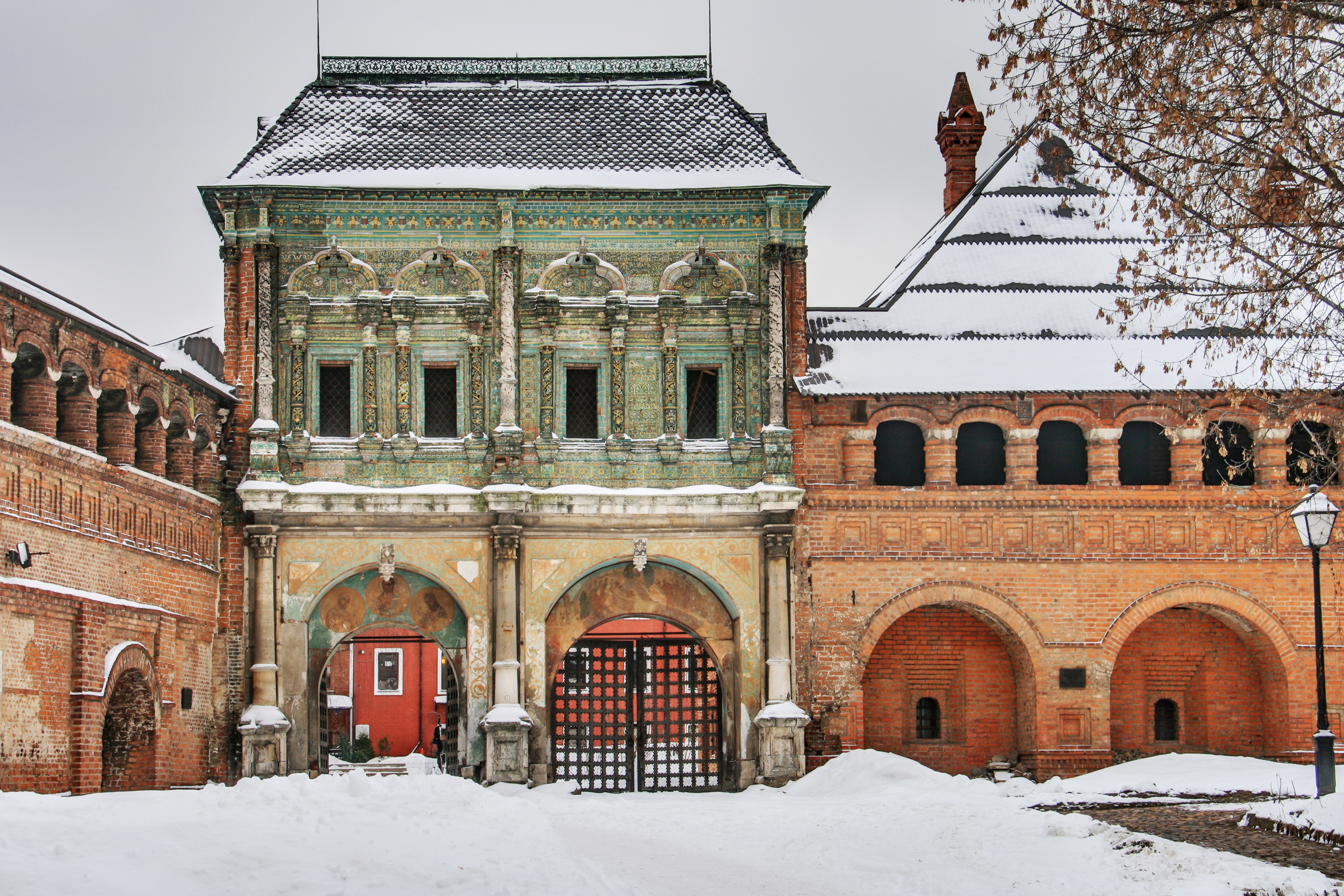 Teremok gate in Krutitsy Metochion, Moscow, Russia